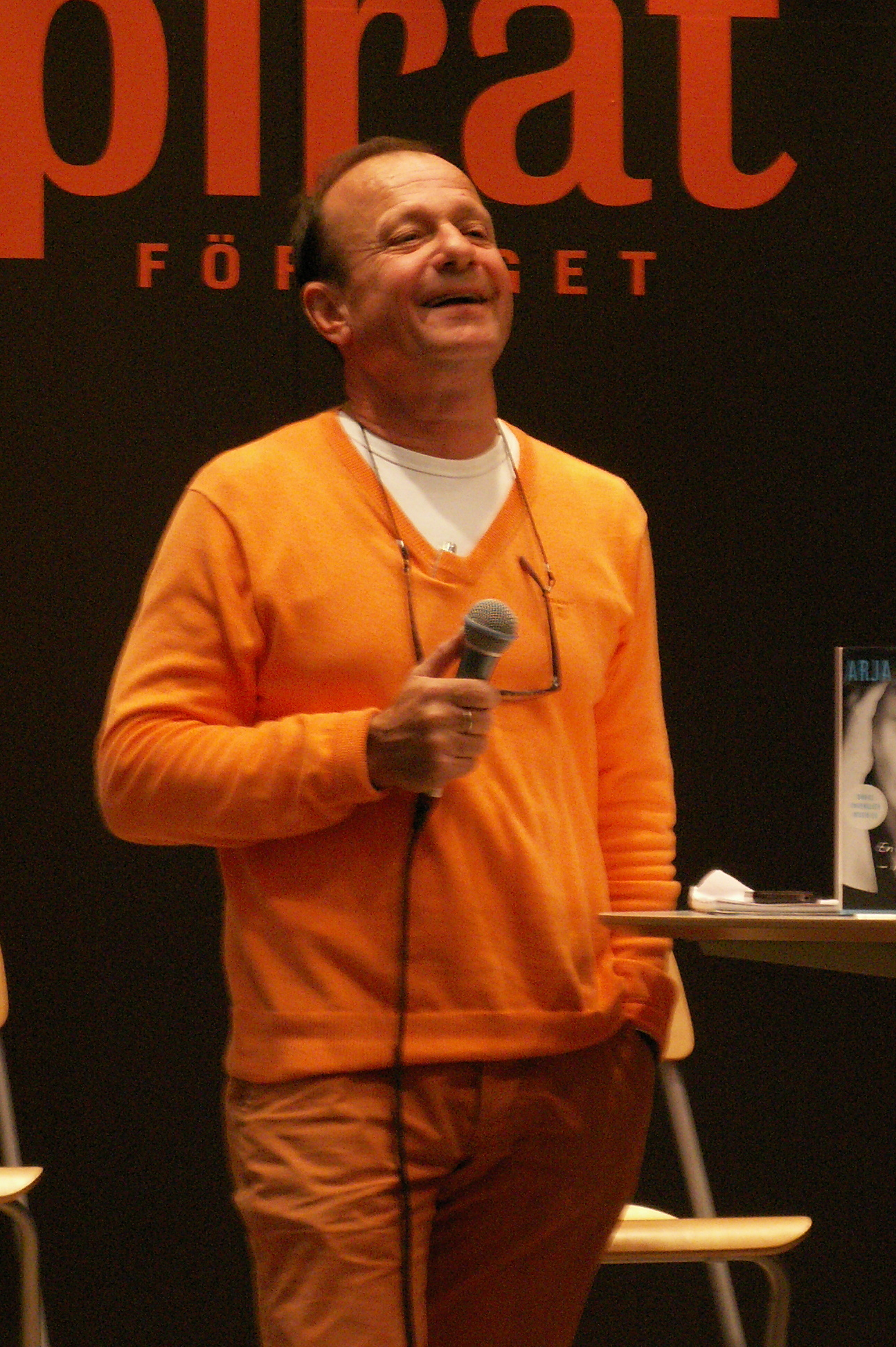 Fredrik Belfrage at the 2011 Göteborg Book Fair, being in good mood during an interview with Arja Saijonmaa.